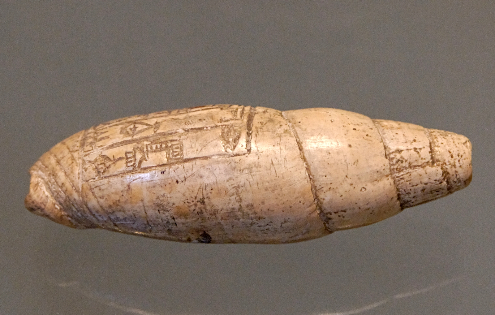 Shell inscribed with the name of Ur-Ningirsu, ruler of Lagash, son of Gudea, ca. 2110 BC. From Telloh, ancient Girsu.